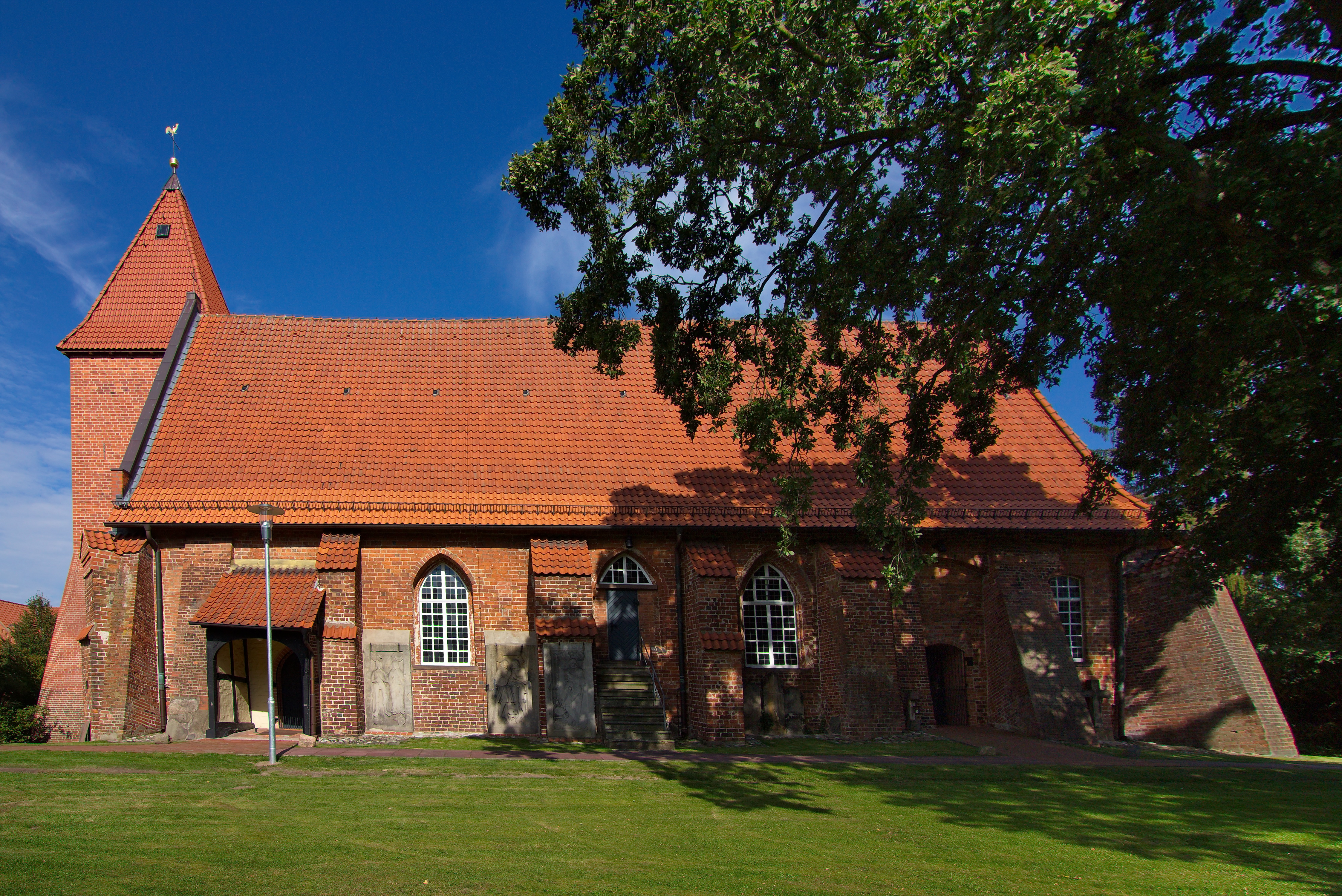 Sankt-Johannis-der-Täufer-Kirche aus dem 12. Jahrhundert in Drakenburg, Niedersachsen, Deutschland